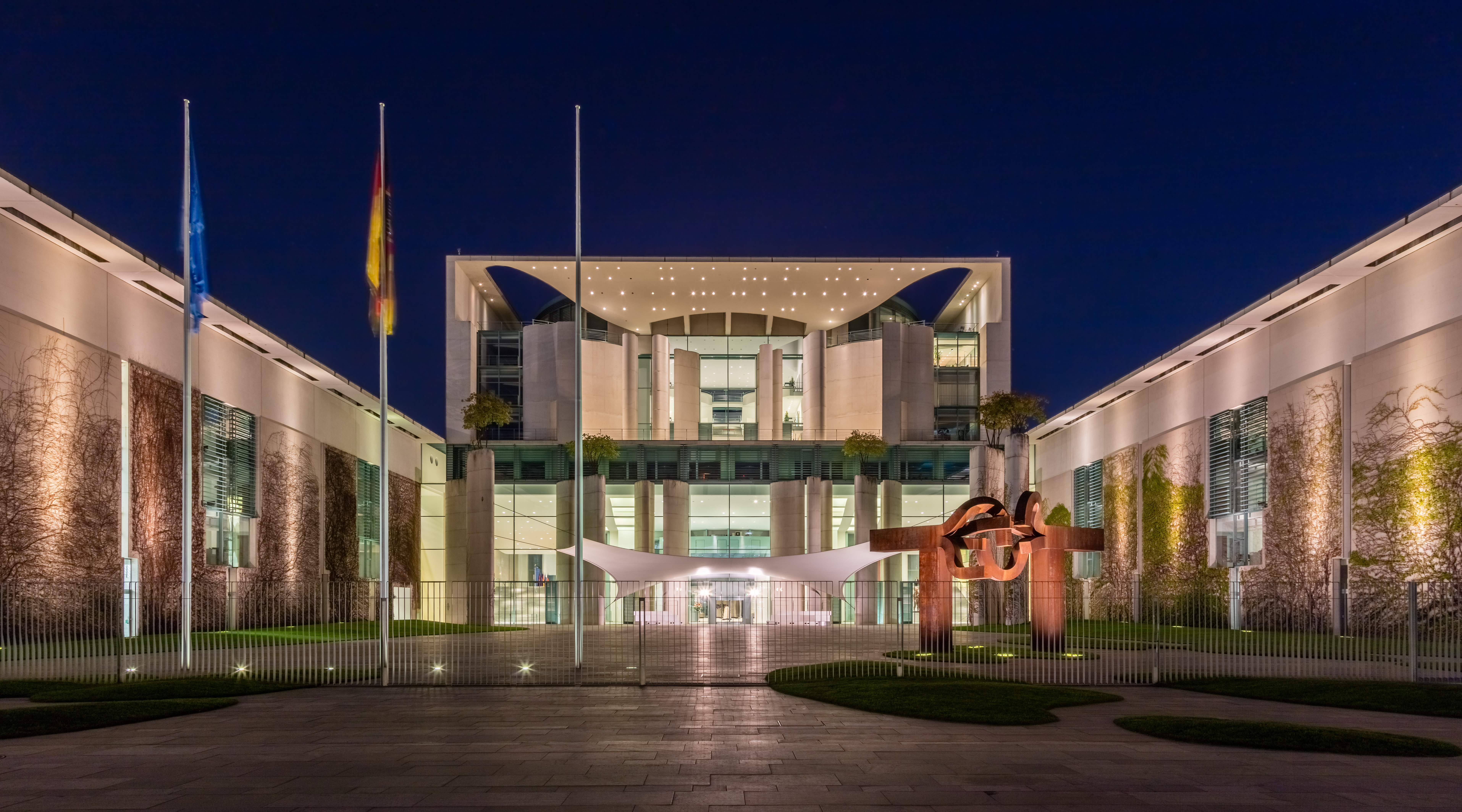 Night view of the front of the German Chancellery building (in German Bundeskanzleramt), located in the heart of Berlin, Germany. The building, of postmodern style with elements of modernist style was opened in 2001 and was designed by Charlotte Frank and Axel Schultes. The iron sculpture called "Berlin" is work of Eduardo Chillida. The building hosts the agency serving the executive office of the Chancellor of Germany, the head of the federal government, currently Angela Merkel.